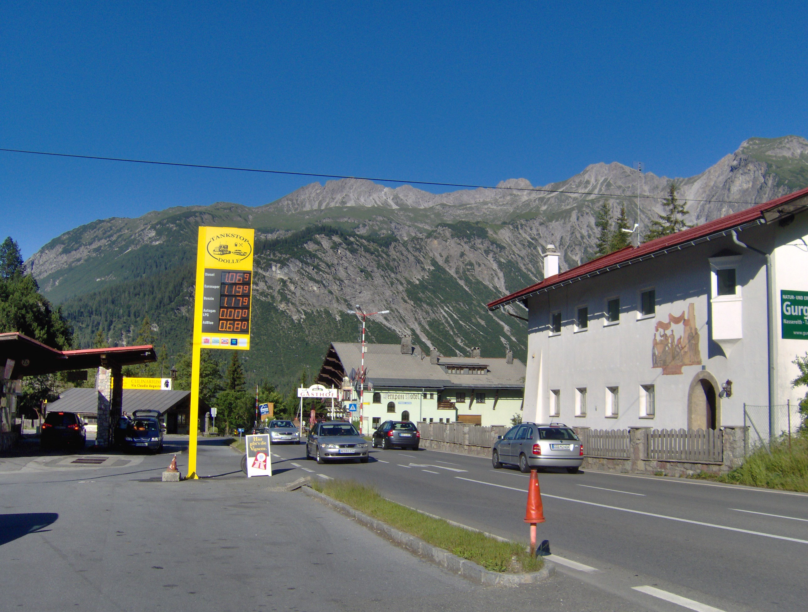 The village of Fernpass (municipality of Nassereith) at the mountain pass Fern Pass in Tyrol, Austria